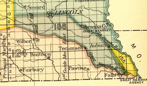 Map of the Nemaha Half-Breed Reservation in Nebraska, a reservation designated for individuals of mixed American Indian and European descent. This reservation was designated in a July 15, 1830 treaty between the Sac, Fox, Mdewakanton, Wahpekuta, Sisseton and Wahpeton Indian tribes and the United States government.